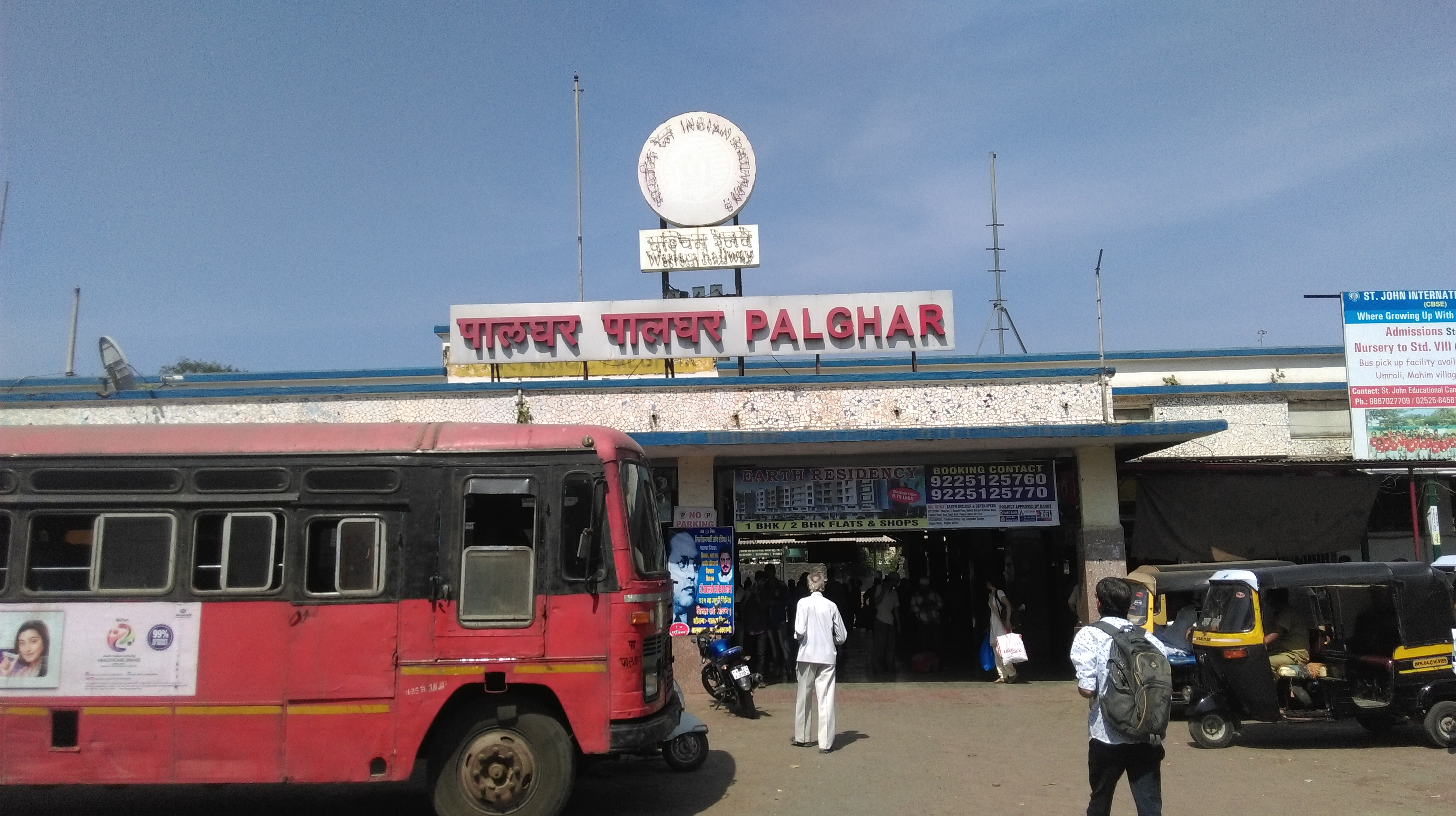 Palghar railway station - entrance